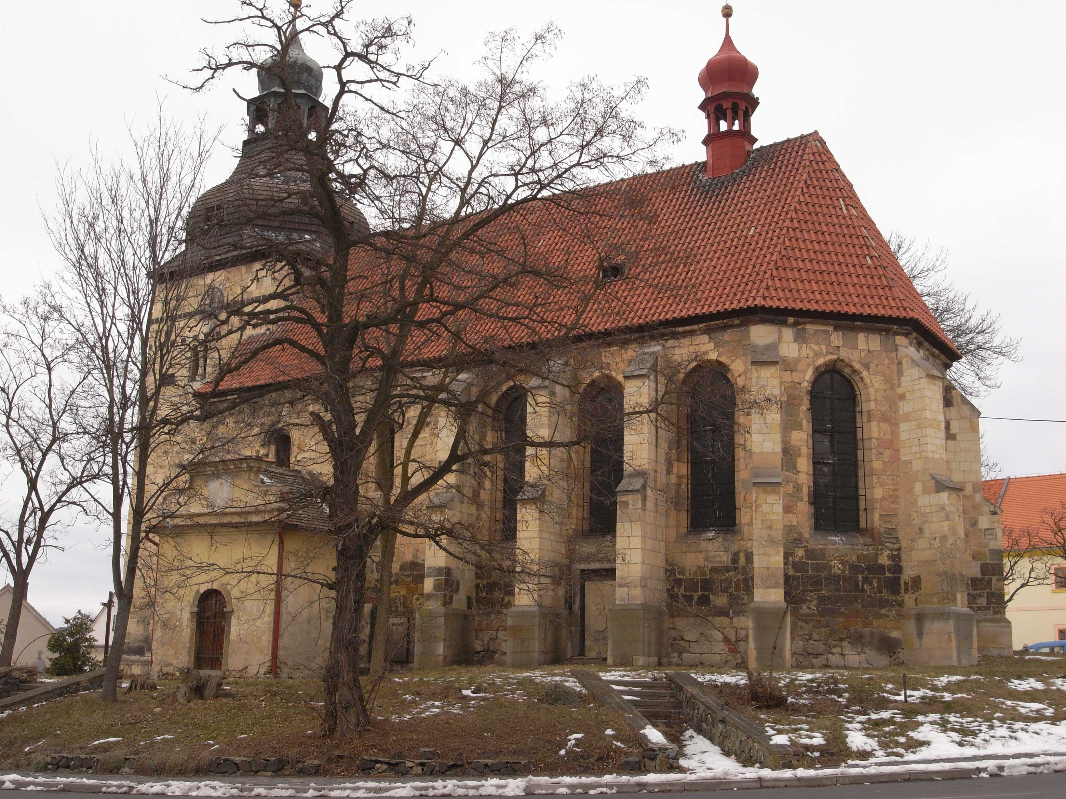 Libčeves, church John the Baptist (build 1220-1230) (Louny District, Northern Bohemia, Czech Republic)